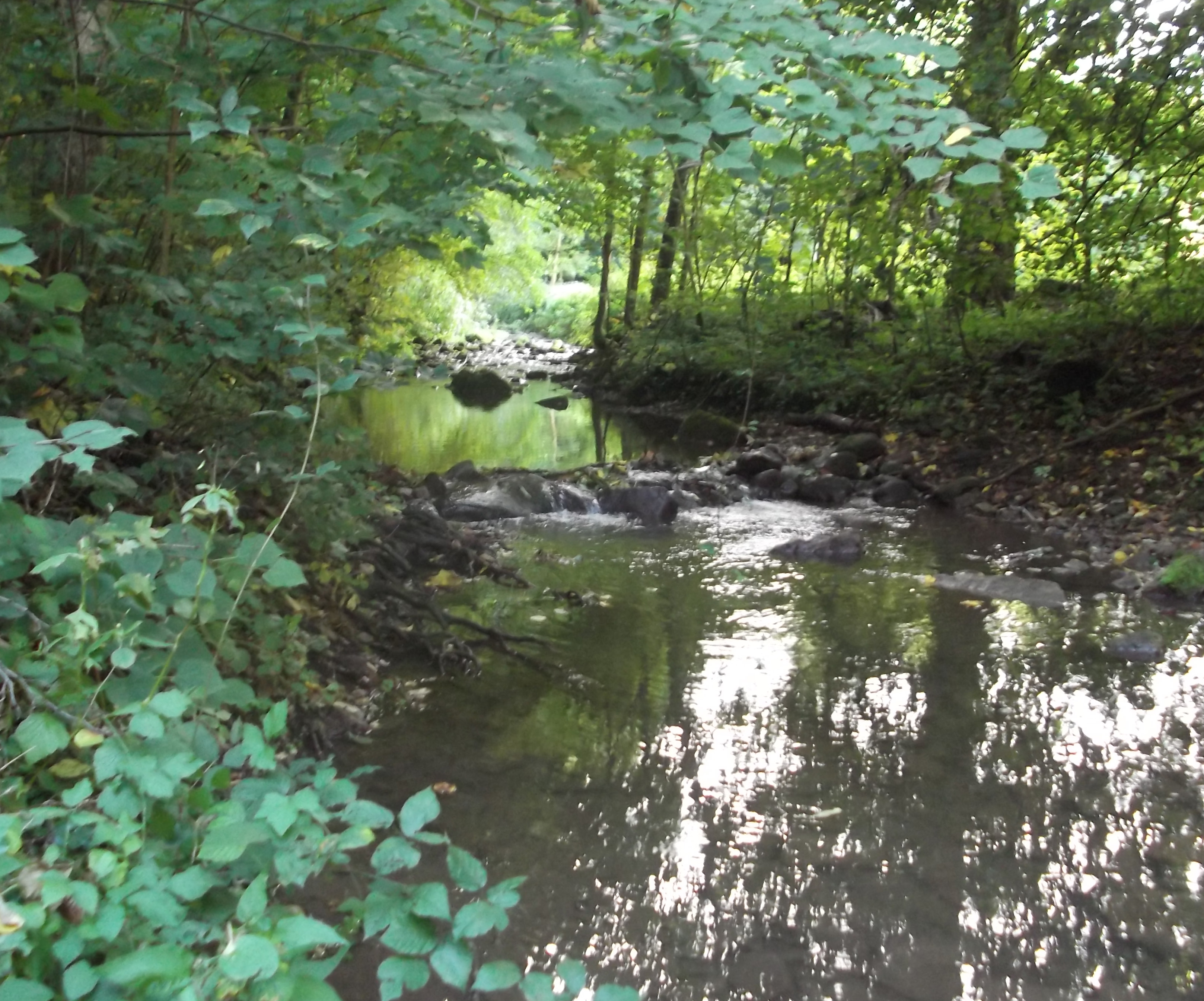 The river Schönertsbach just before its mound into the river Tauber.